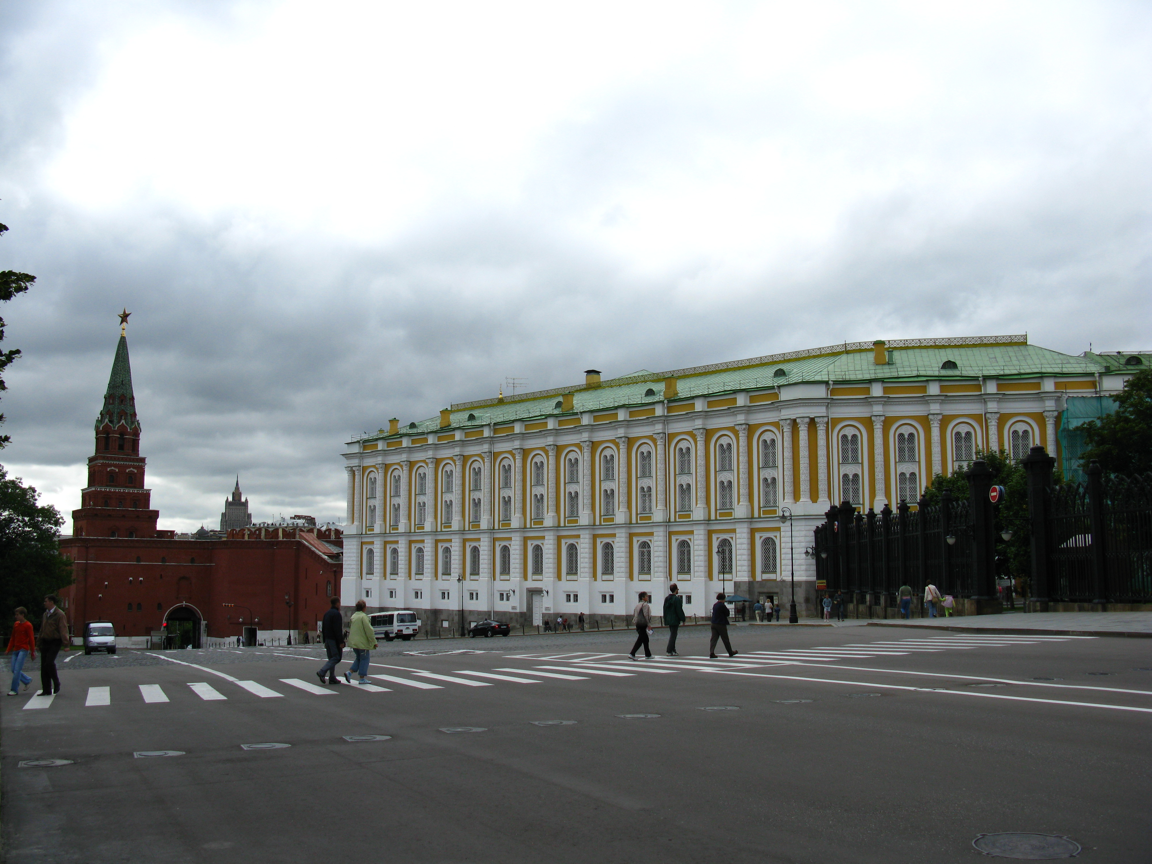 Borovitskaya Tower and Kremlin Armory Kremlin, Moscow, Russia